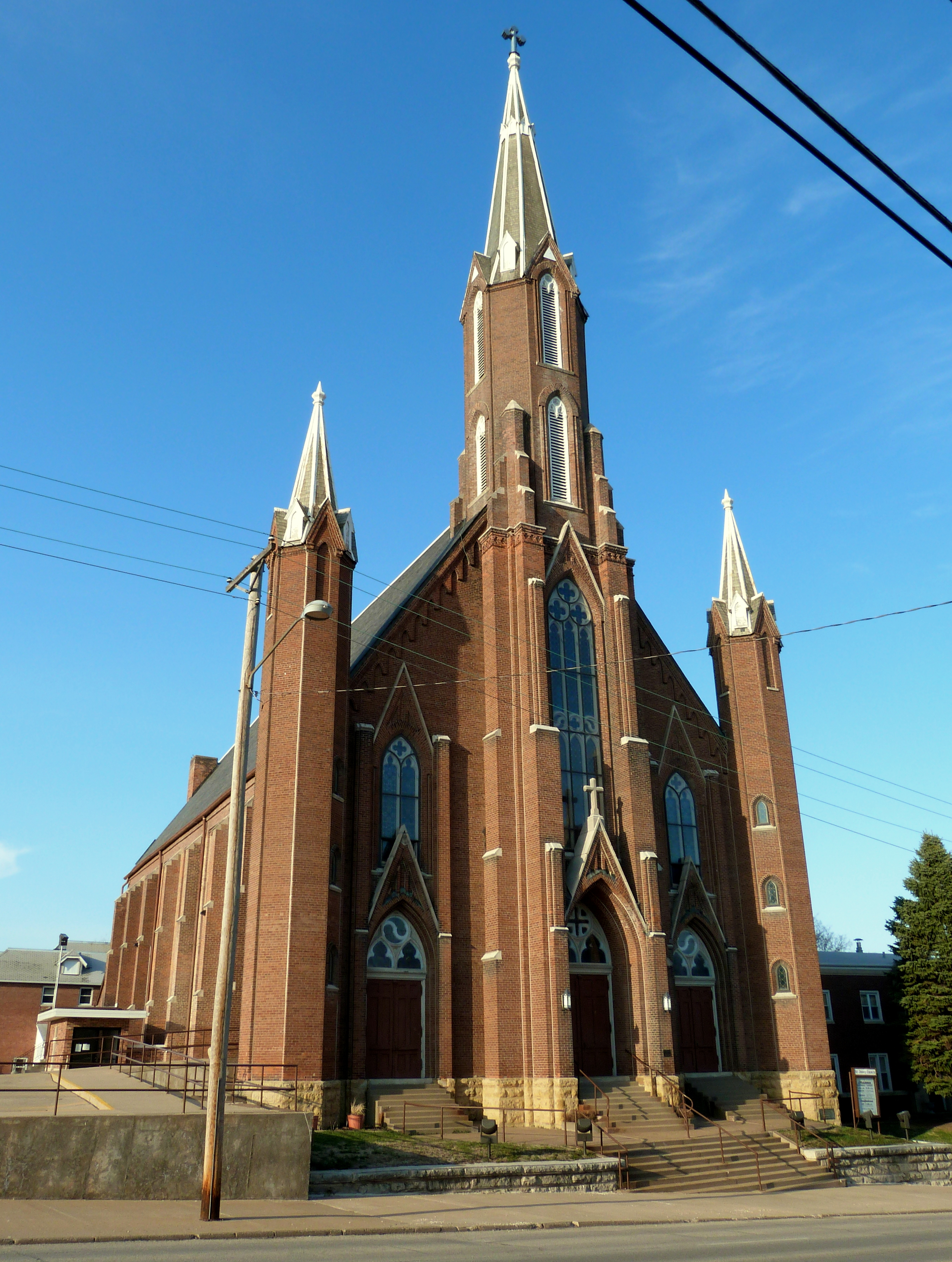 The historic St. John the Baptist Catholic Church (built 1883), located at 712 Division Street in Burlington, Iowa, United States, is listed on the US National Register of Historic Places.